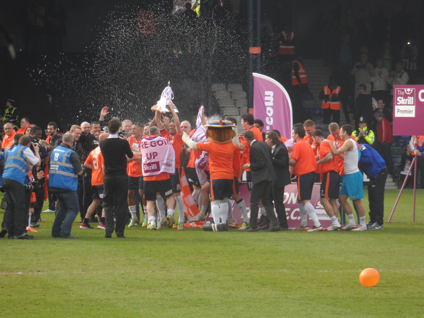 Luton Town players and staff celebrate with the Conference Premier championship trophy at Kenilworth Road on 21 April 2014, having won the division